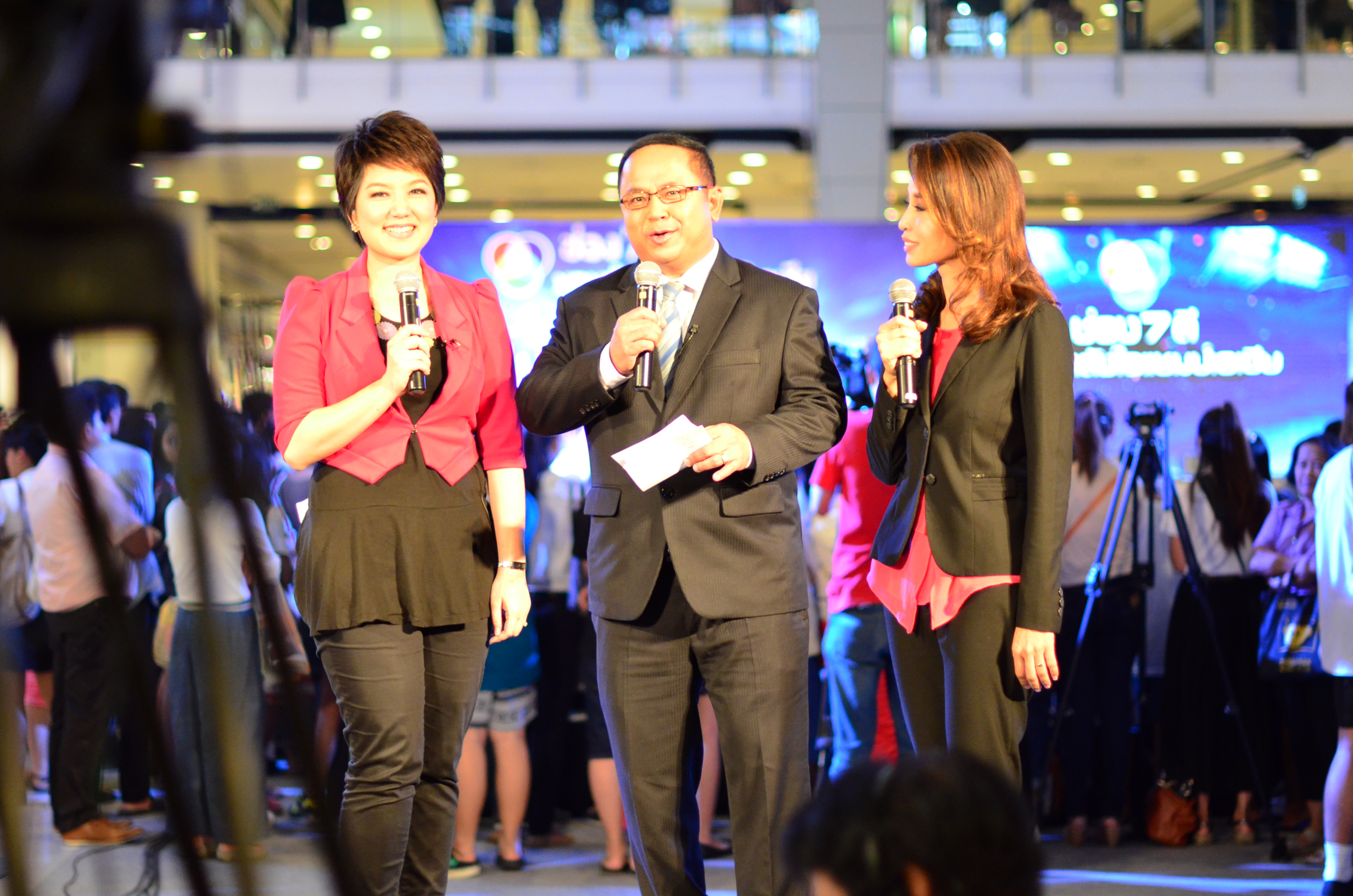 Srisupang, Weerasak, Sornsawan